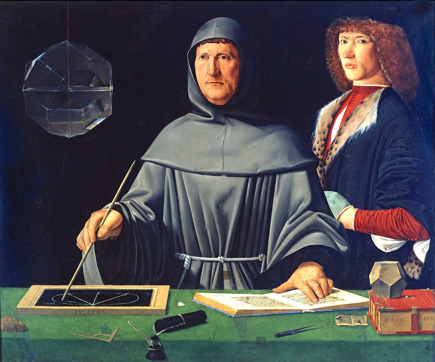 It shows Pacioli standing behind a table and wearing the habit of a member of the Franciscan order. He draws a construction on a board, the edge of which bears the name Euclides. His left hand rests upon a page of an open book. This book may be his Summa de Arithmetica, Geometria, Proportioni et Proportionalità or a copy of Euclid. Upon the table rest the instruments of a mathematician: a sponge, a protractor, a pen, a case, a piece of chalk, and compasses. In the right corner of the table there is a dodecahedron resting upon a book bearing Pacioli's initials. An rhombicuboctahedron (a convex solid consisting of 18 squares and 8 triangles) suspends at the left of the painting. The identity of the young man at the right is uncertain, but one commentator recognizes the "eternal student" instructed by Pacioli. Some authors have also mentioned the possibility that the student is Dürer.